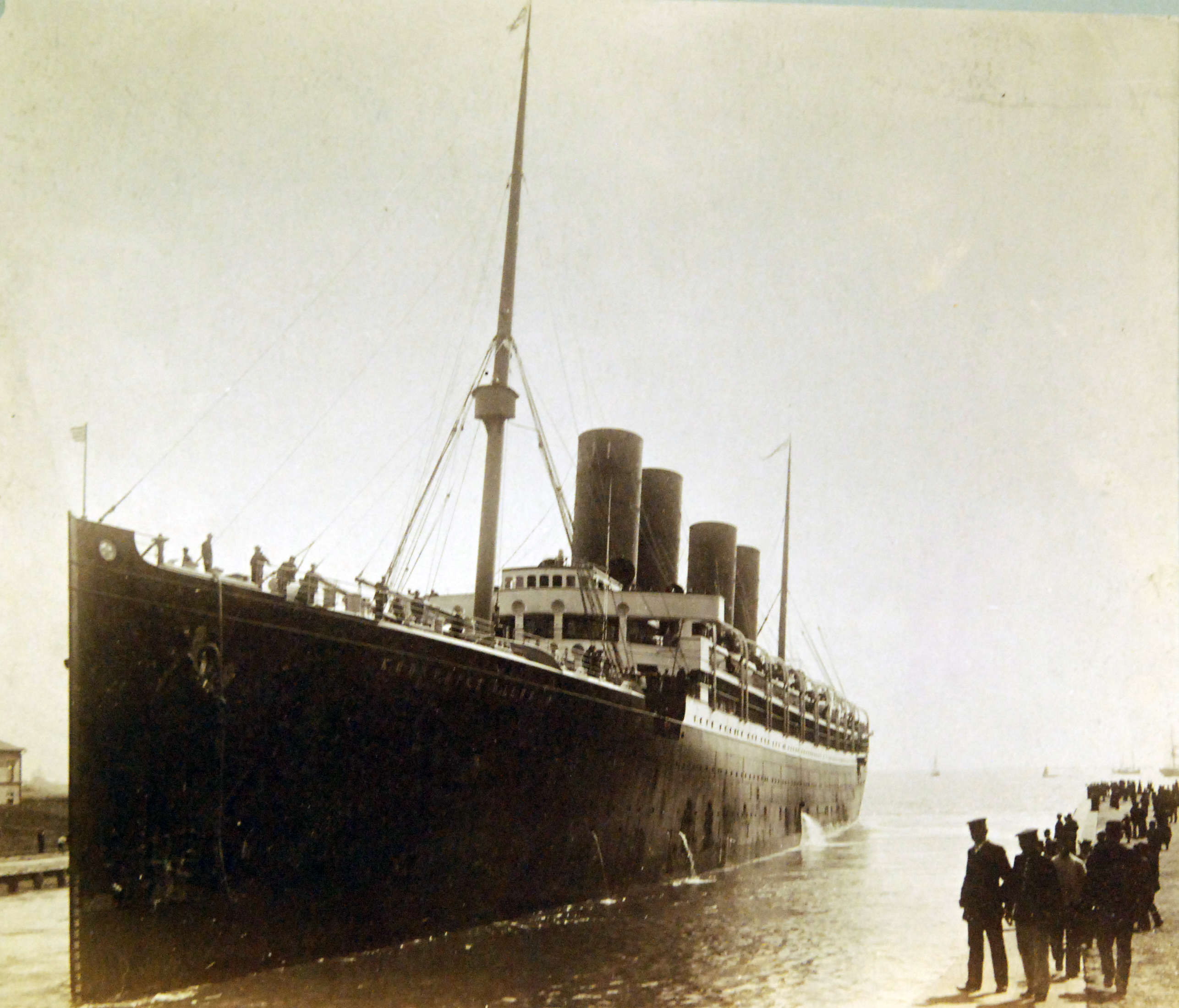 Lot-11264-4: SS Kronprinz Wilhelm, port view. Taken under possession by the United States during World War I, she served as troopship USS Von Steuben. George Bain Collection. Courtesy of the Library of Congress. (2018-05-25).